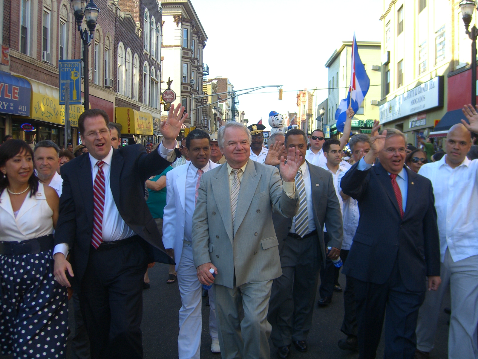 Union City, New Jersey Mayor Brian P. Stack (left, in the striped tie), marching in the 11th annual Cuban Day Parade on Bergenline Avenue, June 6, 2010. At right, in the red tie, is New Jersey Senator and former Union City Mayor Bob Menendez. At the extreme left is Union City Commissioner Maryury Martinetti, and at the extreme right is Commissioner Christopher Irizzary Photo by Luigi Novi. This photo may be used and modified, for any purpose, only if the photographer is visibly credited in each instance in which it is used. (See licensing information below.) For more information on my photos, you can contact me here.